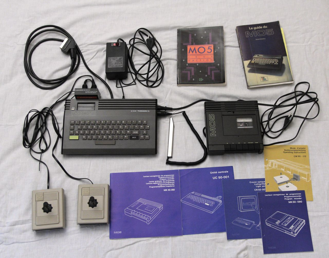 Thomson MO5 with common books and components